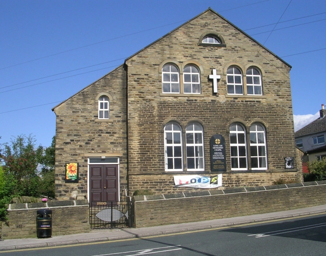 Long Lee Methodist Chapel - Long Lee Lane